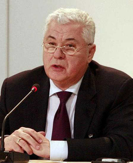 Vladimir Voronin is a Moldovan politician. He was the third President of Moldova from 2001 until 2009.